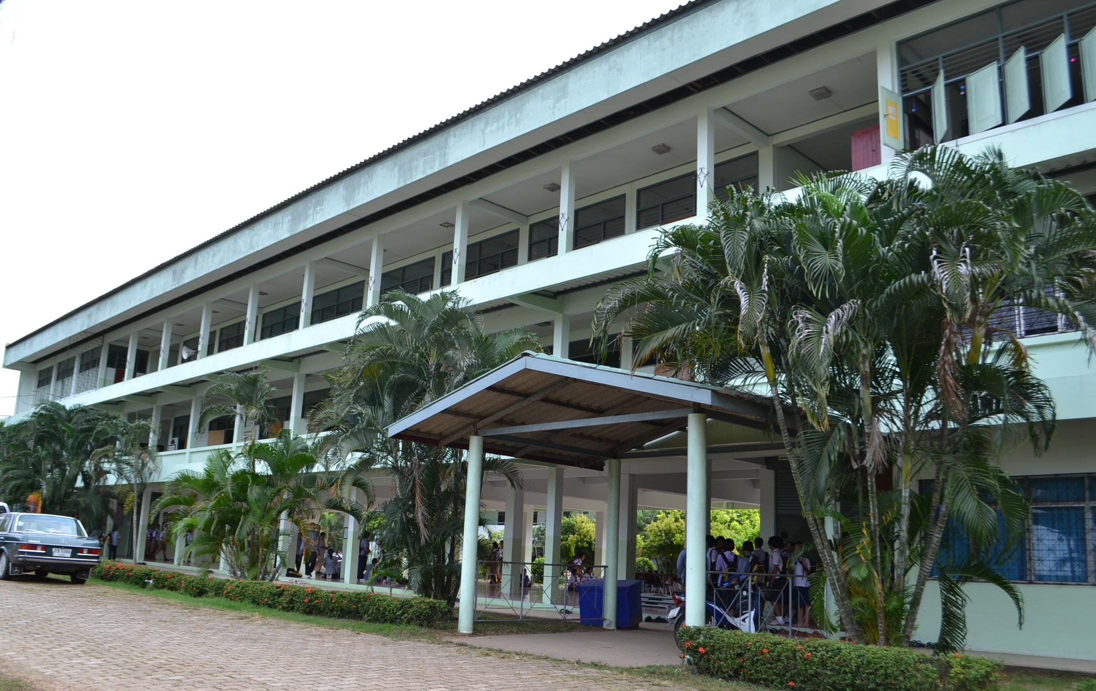 Thung Kalo Witthaya School , Mueang Uttaradit, Uttaradit Province, Thailand.